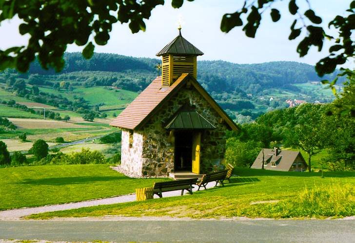 Kapelle Maria Patrona Bavariae in Rothengrund